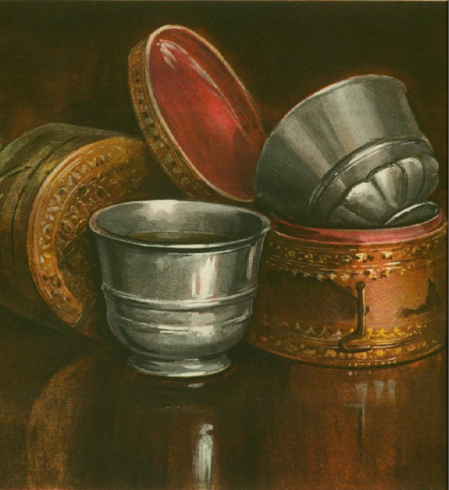 Antimonyall Cupps